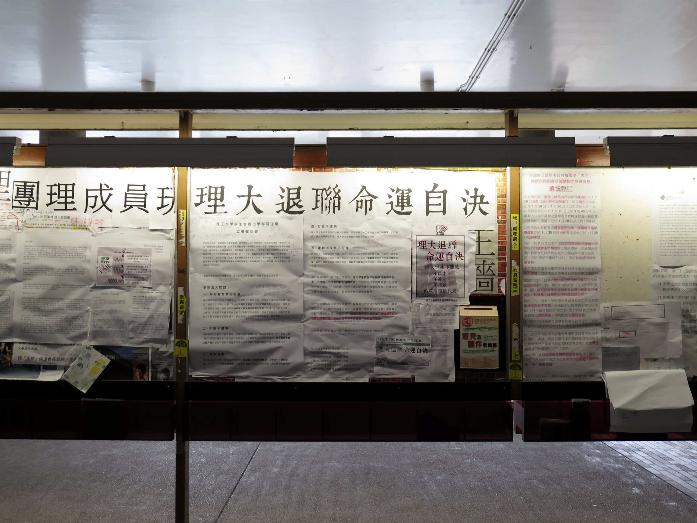 HK PolyU Quit HKFS board messag